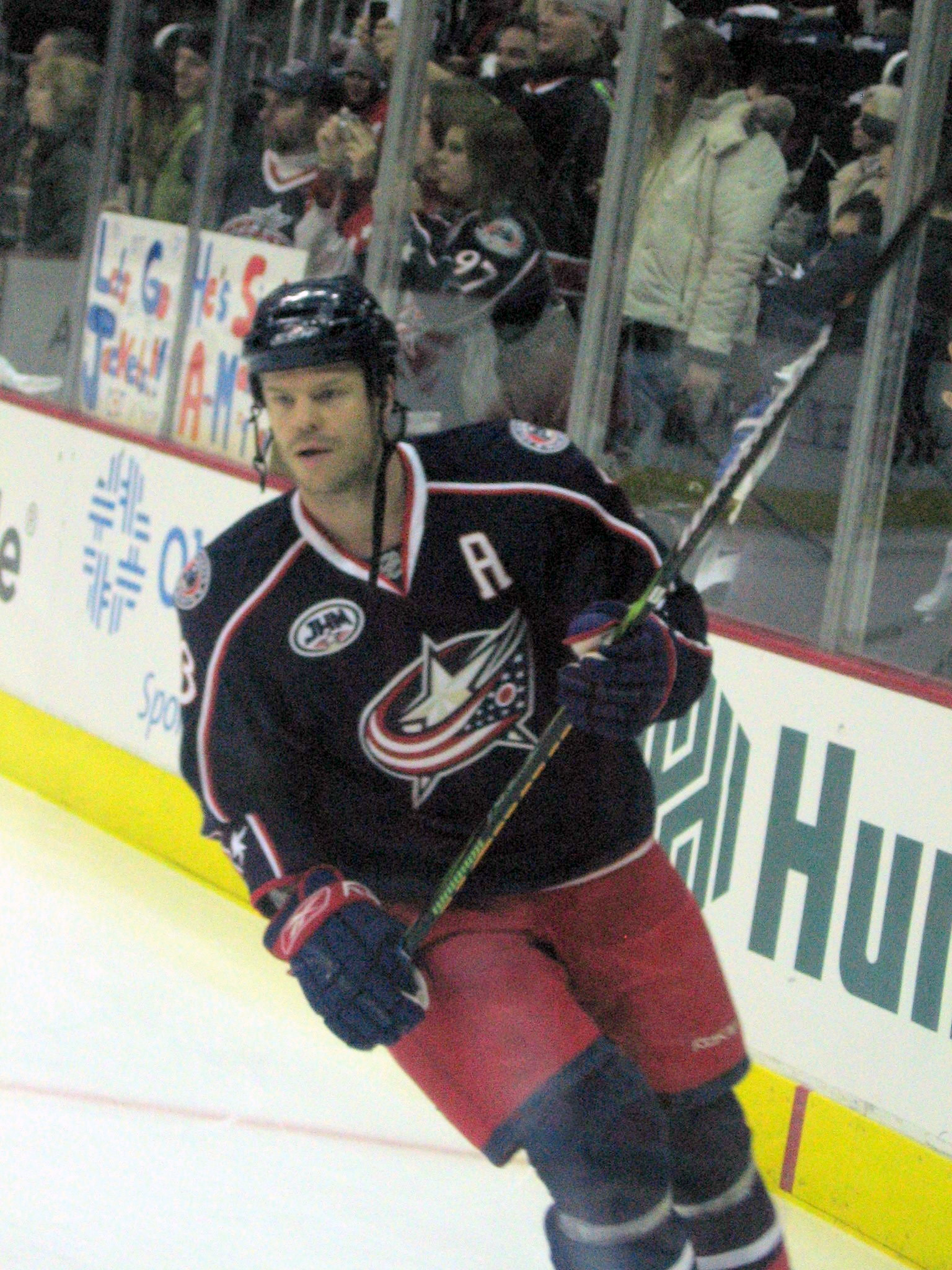 Fredrik Modin of the Columbus Blue Jackets prior to their January 10, 2009 game against the Minnesota Wild at Nationwide Arena in Columbus.